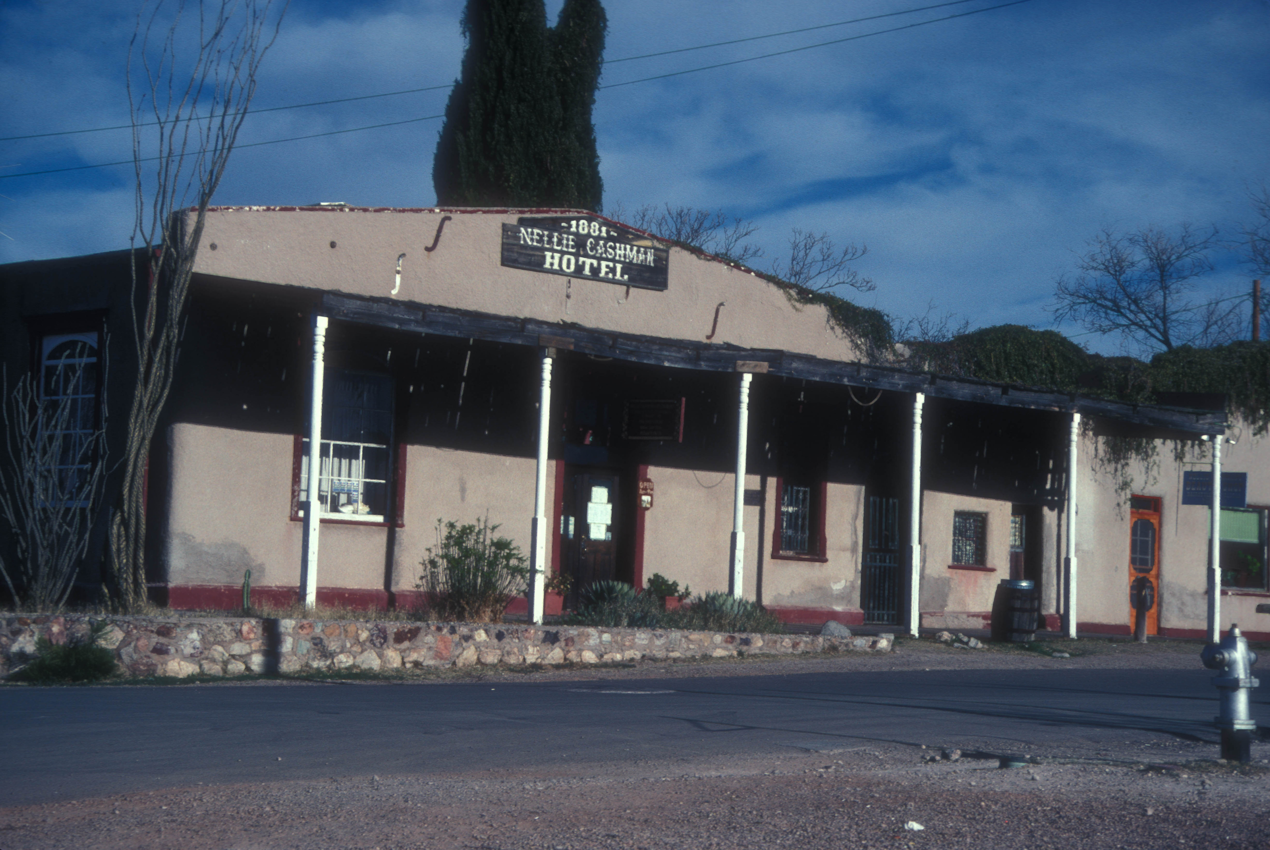 CASHMAN AND HER ASSOCIATE JOSEPH PASCHOLY CO-OWNED AND RAN A RESTAURANT AND HOTEL IN TOMBSTONE CALLED RUSS HOUSE, NOW KNOWN AS NELLIE CASHMAN'S